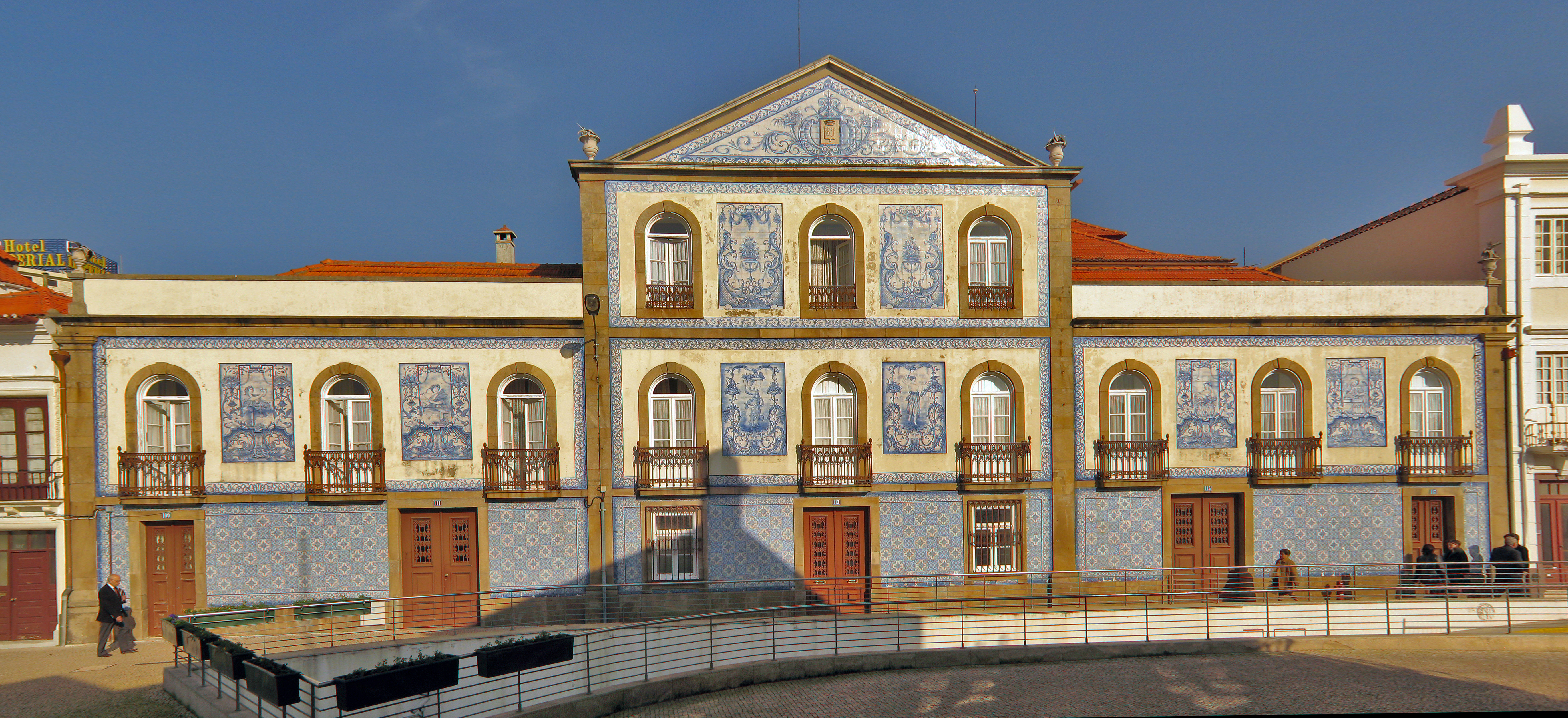 Building in Aveiro with typical Azulejo